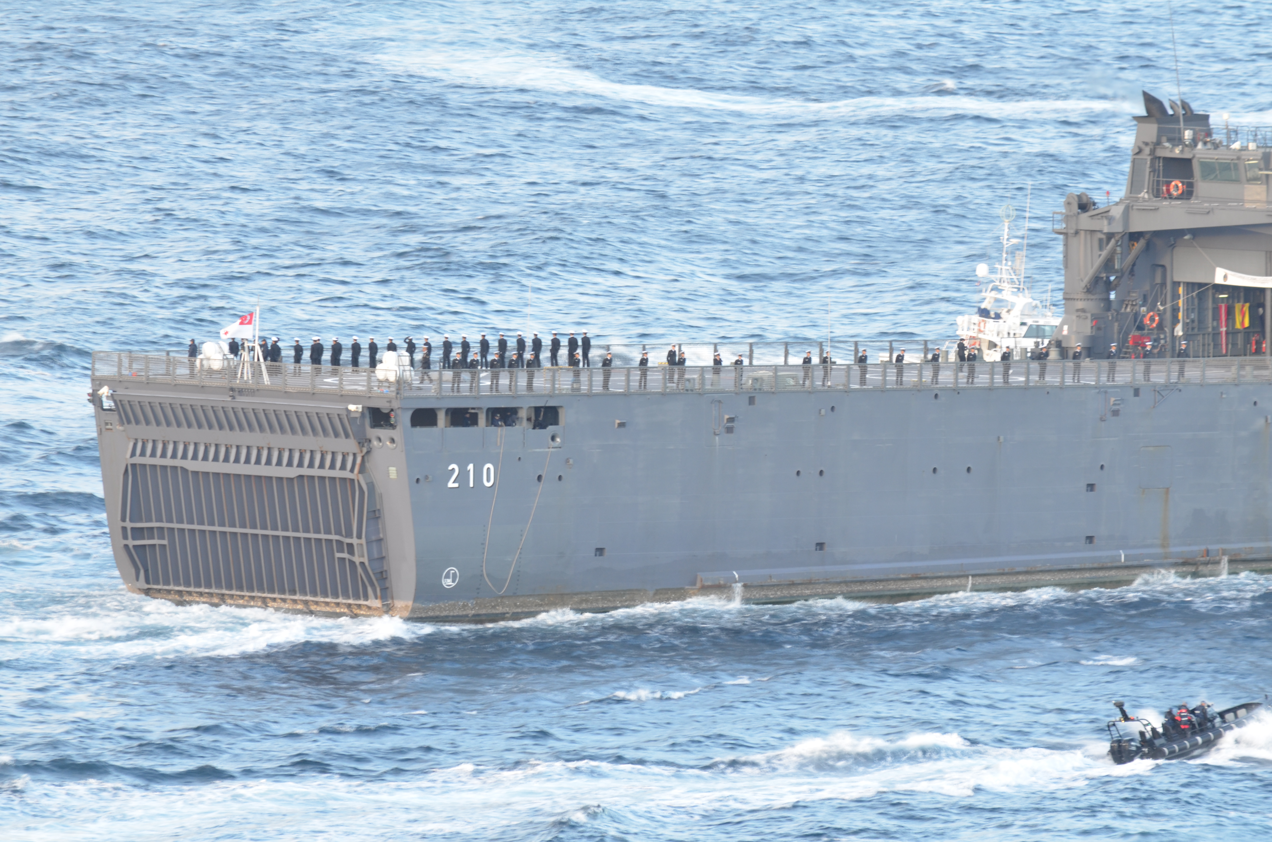 Photographs taken during day 2 of the Royal Australian Navy International Fleet Review 2013. Stern section of the Singaporean landing dock ship Endeavour